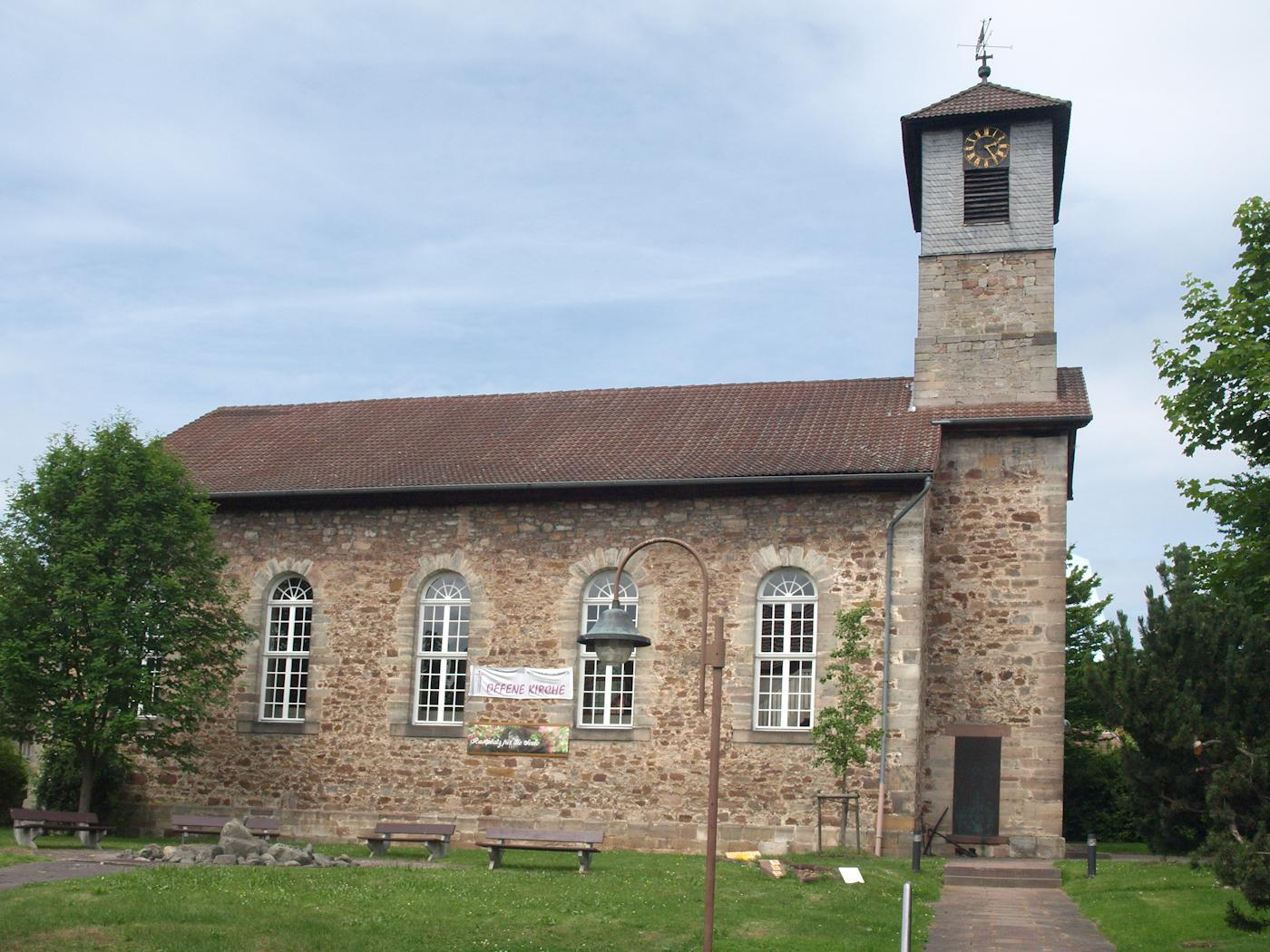 Church St. Martin, Oedelsheim, Hessen (Germany) photo 2012